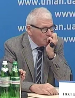 Paul Devroey, Belgian scientist in the field of medicine